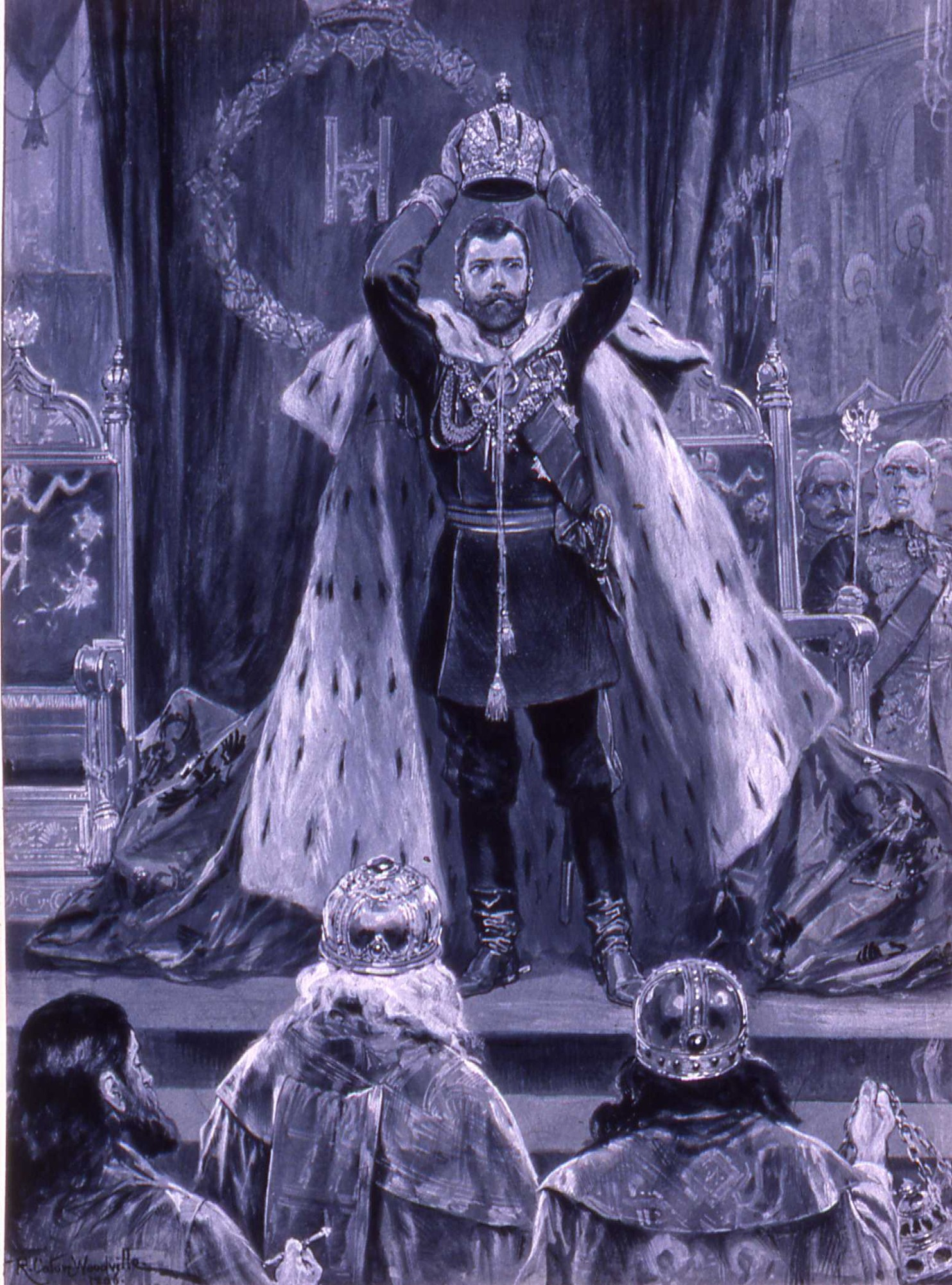 The Coronation of the Emperor Nicholas II: the Emperor placing the crown upon his head, 26 May 1896 DM 5941: illustrator's drawing. The Emperor is placing the crown upon his head. the Duke of Connaught is seen in background on right. Signed and dated.